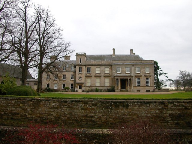 Lamport Lamport Hall viewed from the Churchyard.